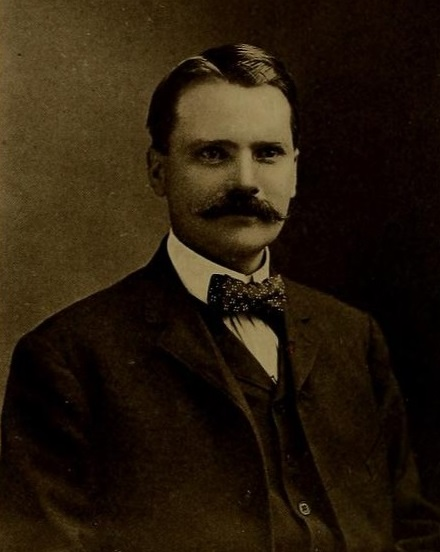 Denis O'Leary, New York Congressman